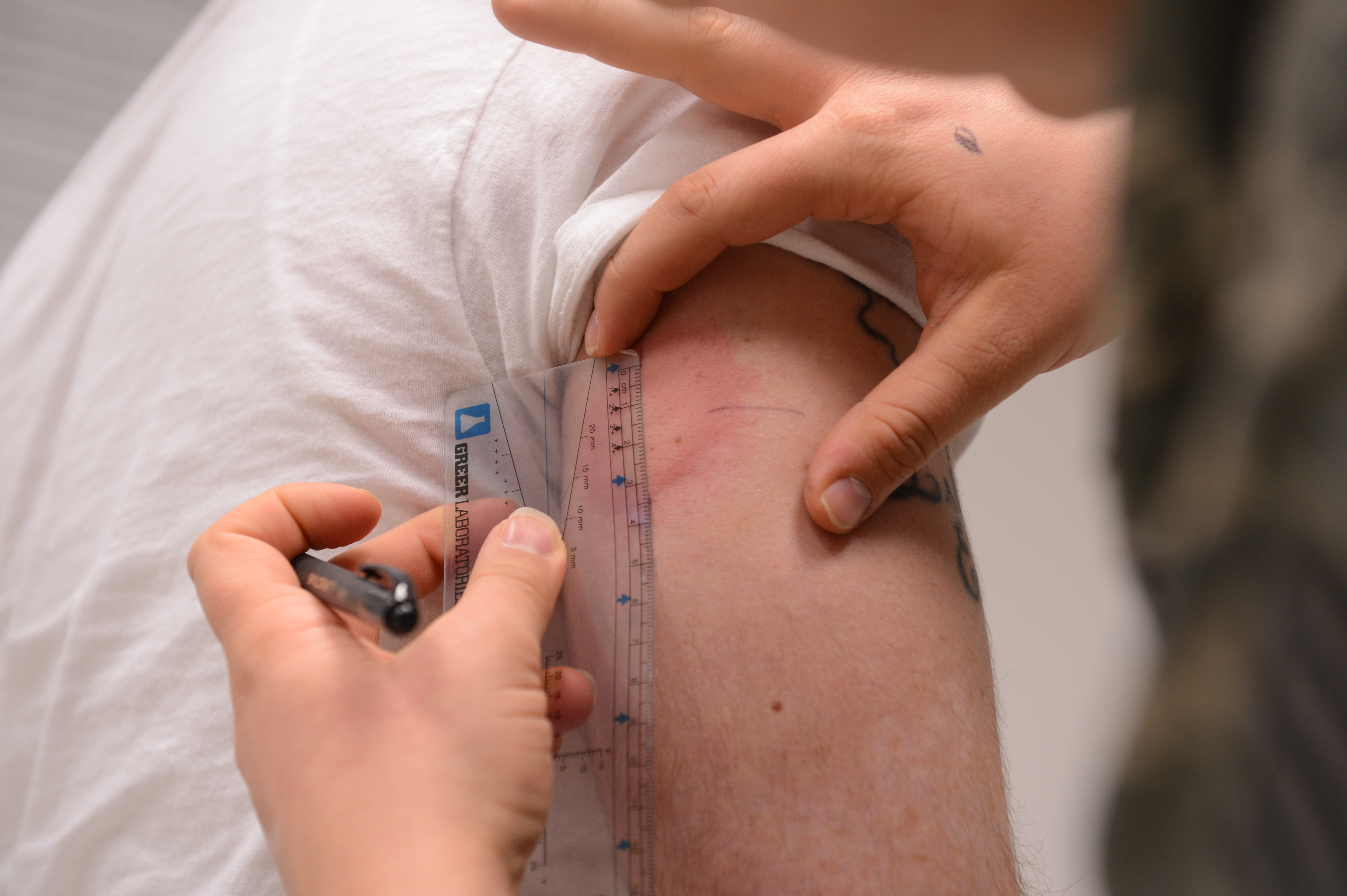 SPANGDAHLEM AIR BASE, Germany – U.S. Air Force Staff Sgt. Sarah Ellis, 52nd Medical Operations Squadron NCO in charge of Allergy Immunizations from Mount Hood, Ore., measures the swelling of a reaction on Wildmer Santiago’s arm, April 2, 2013. Allergy immunizations slowly build up the bodies’ tolerance to certain organisms which help prevent reactions.